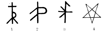 House marks The mark of the Icelander Ormur Ketilsson (1369) The mark of the Icelander Þórður Snorrason (1439) The mark of the Swedish court judge Sweder Scalle (1413) The mark of a stonemason in Uppsala Cathedral, Sweden